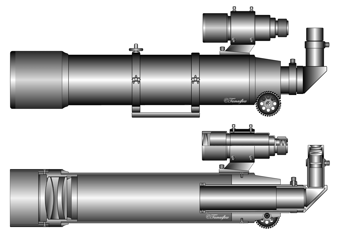 Apochromatic refractor.